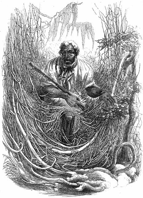 Osman, a escaped slave in the North Carolina part of the Great Dismal Swamp, 1856.